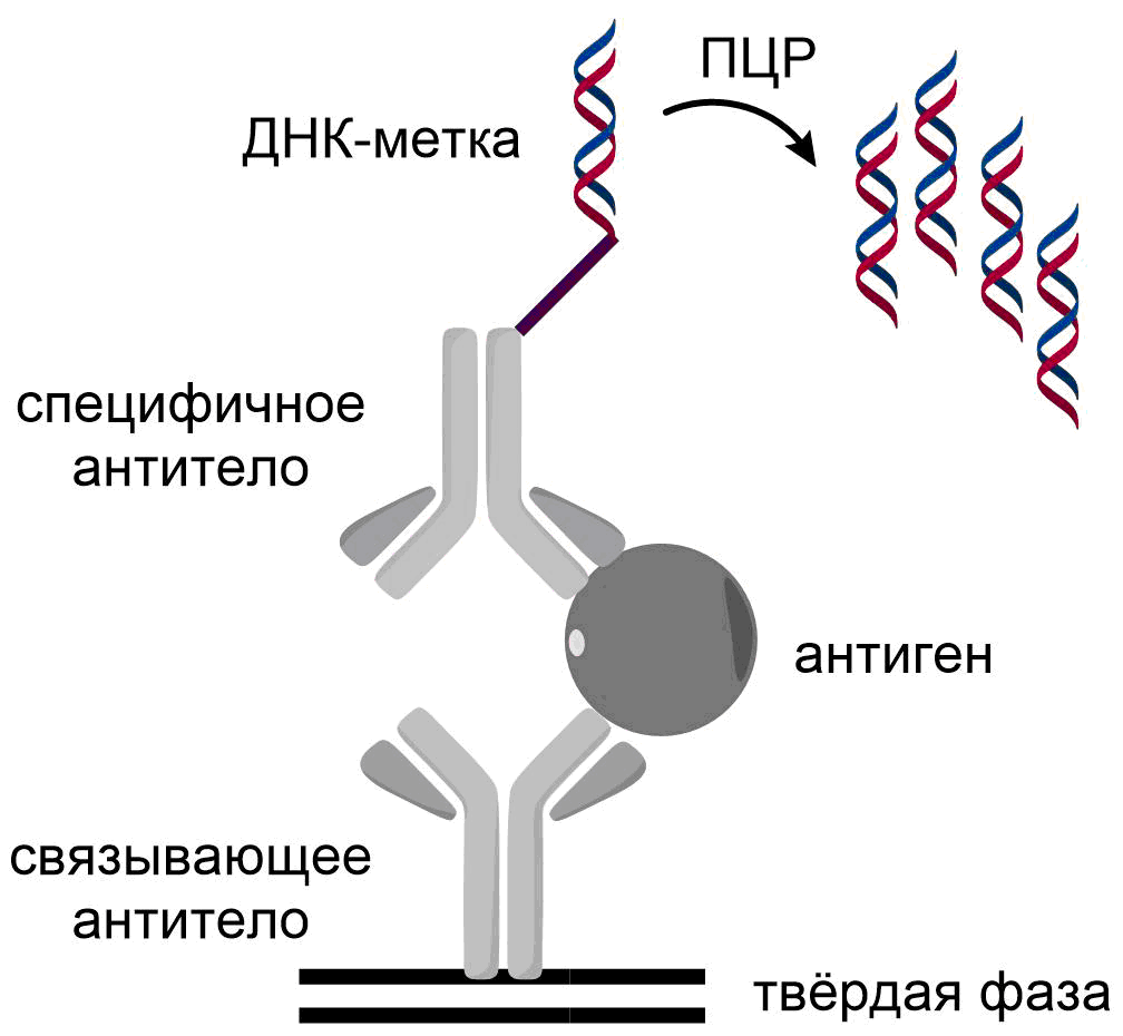 Immuno-PCR